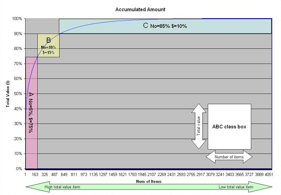 ABC class, A; 5% of items, 75% of value, B; 10% of items, 15% of value, C; 85% of items, 10% of value, (Actual figure of MFG with 4051 parts)